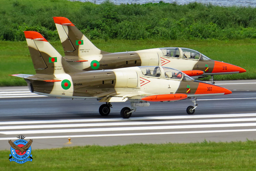 Bangladesh Air Force L-39